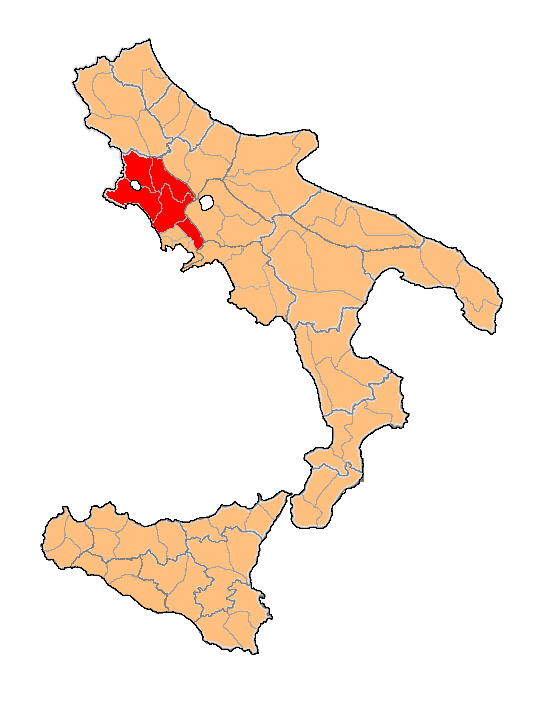 Department of Provincia Terra di Lavoro, of Kingdom of the Two Sicilies